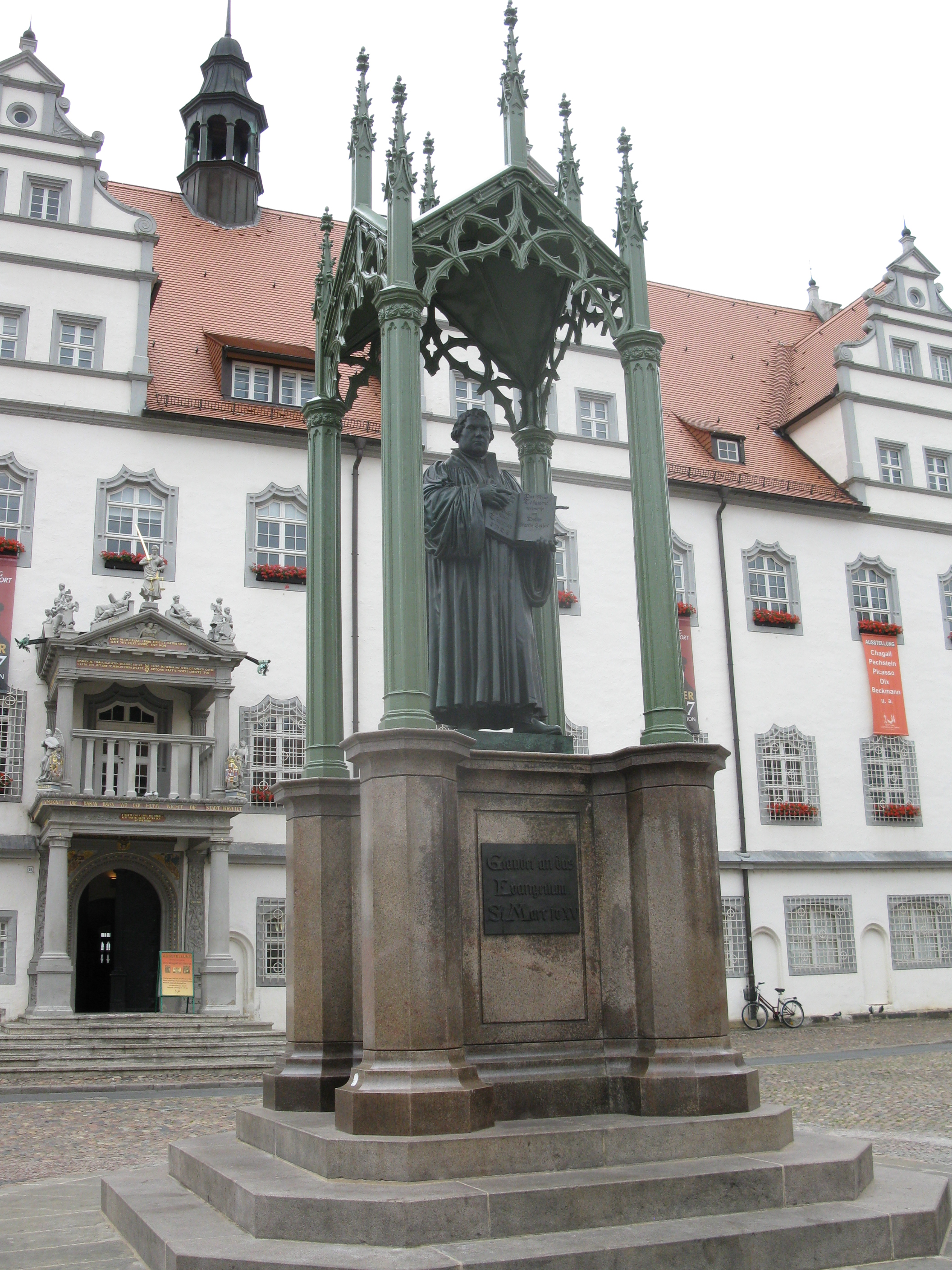 Lutherstadt Wittenberg, Luther monument